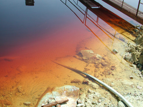 The water of Berkeley Pit